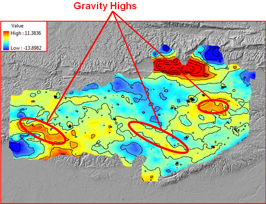 Gravity Highs over the Mardin Uplift